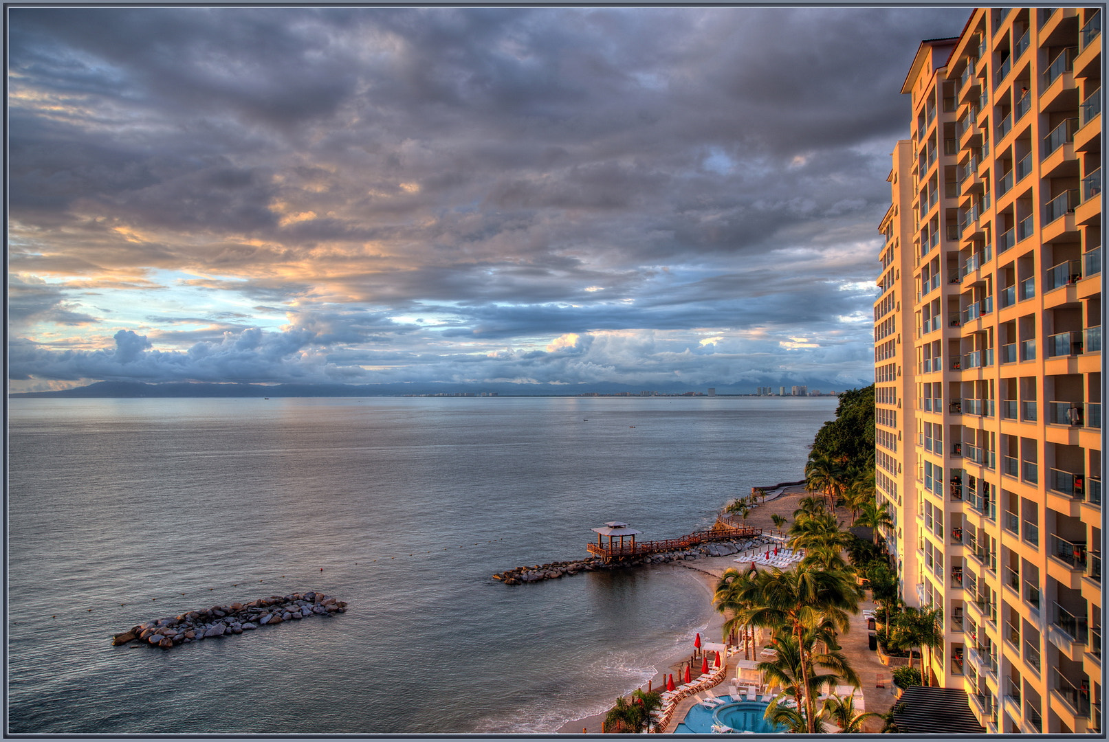 500px provided description: Grand Fiesta Americana, Puerto Vallarta, Mexico. [#sea ,#sunset ,#mexico ,#beach ,#travel ,#clouds ,#ocean ,#summer ,#seascape ,#sundown ,#bay ,#waterfront ,#waterscape ,#jetty ,#puerto vallarta ,#water reflection ,#HDR ,#sigma 24-105]